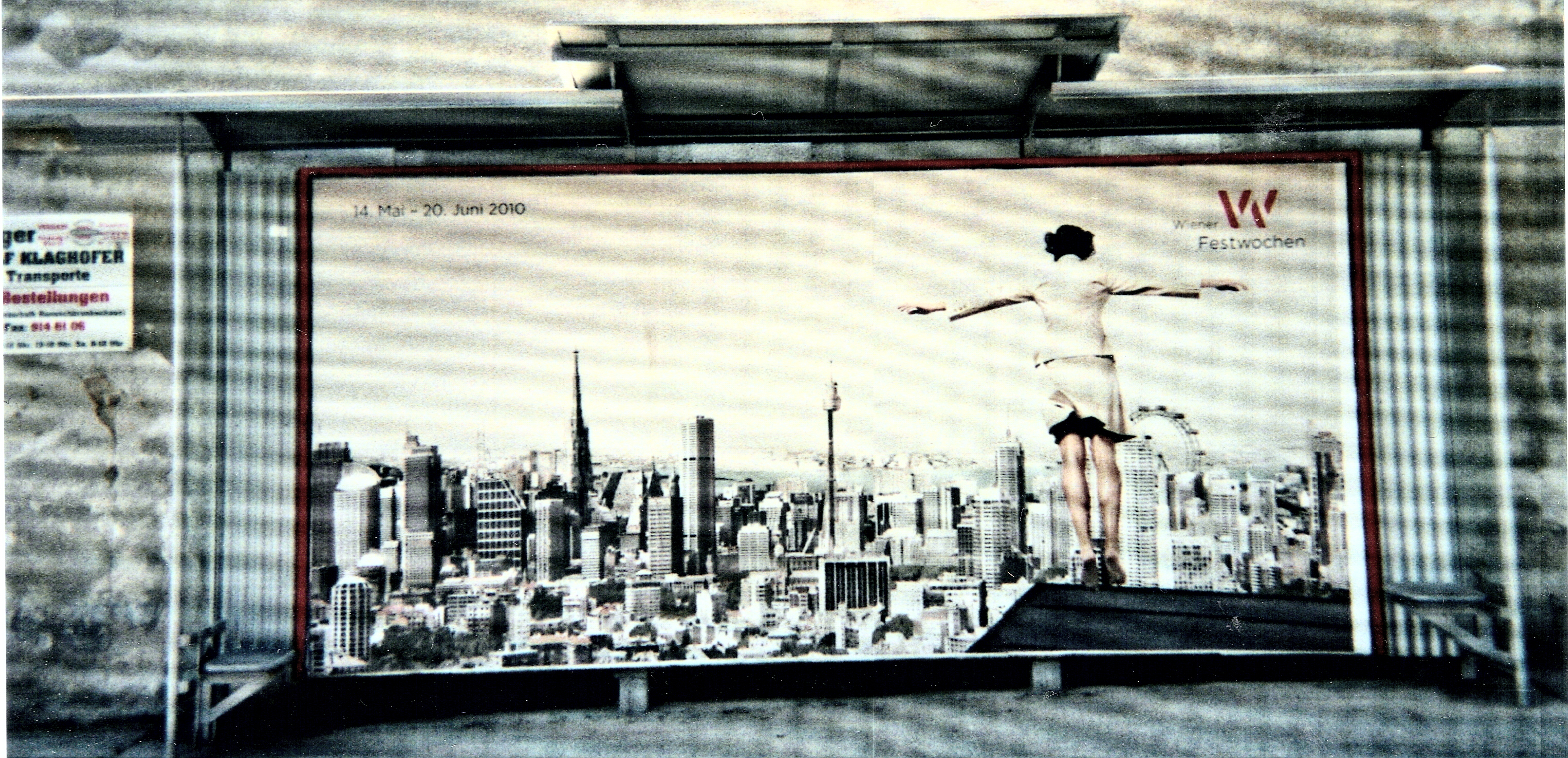 bus stop with poster of Wiener Festwochen (Vienna Arts Festival)